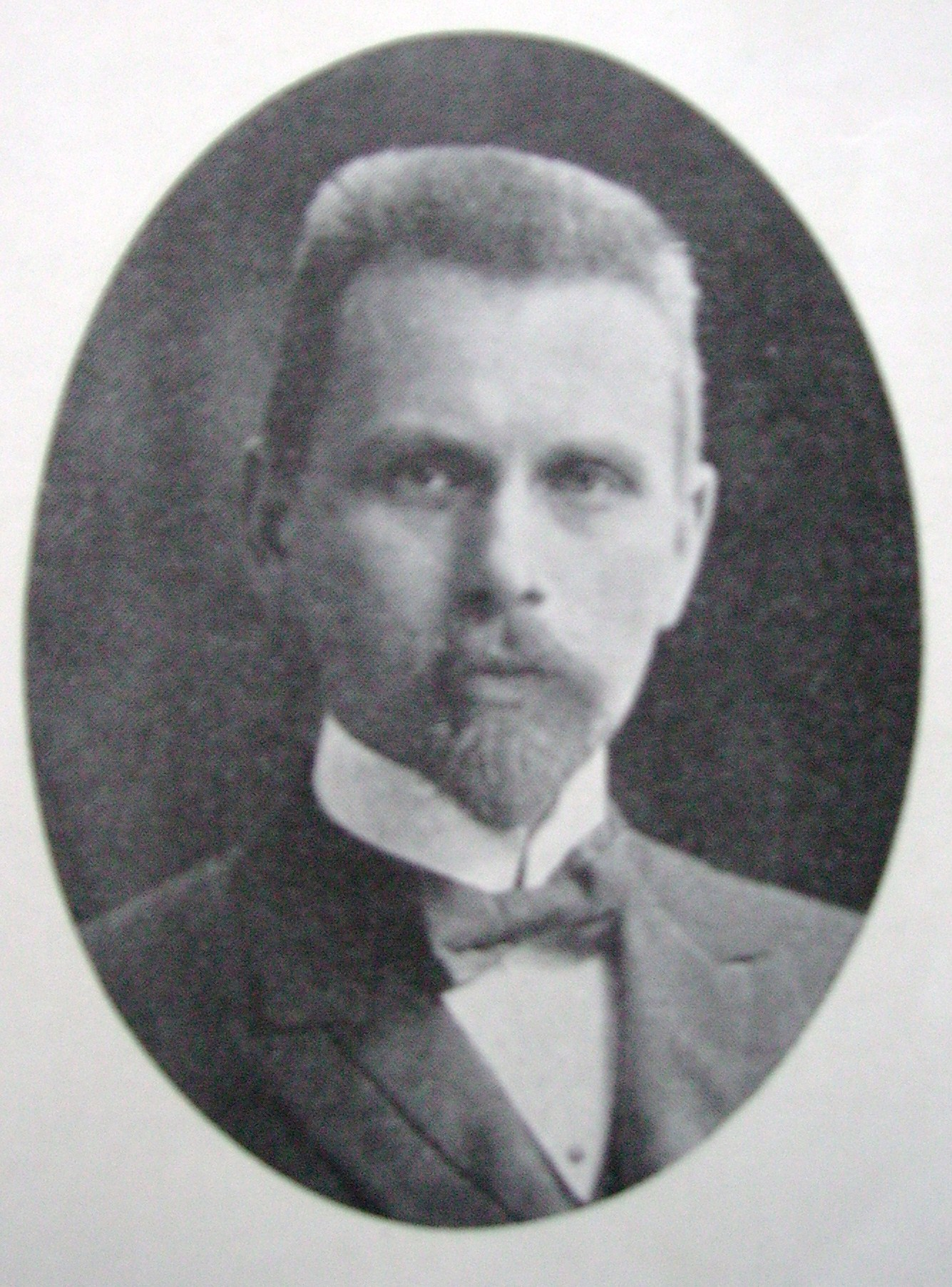 Picture of Karl Hildebrand, Swedish politician